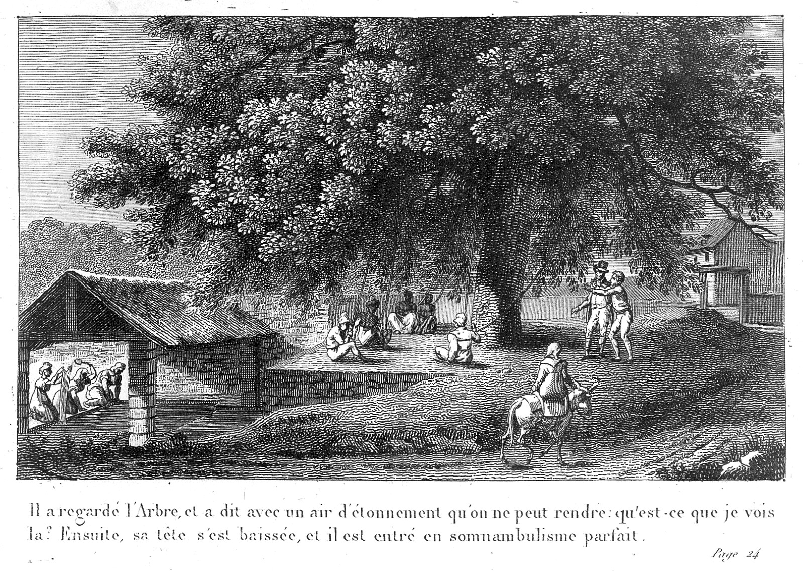 Somnambulist/sleepwalker being astonished by the presence of a tree Rare Books Keywords: sleep walking; Somnambulism; Armand Marie Jacques Chastenet